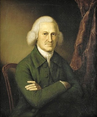 Charles Wilson Peale's portrait of James Claypoole Sr.